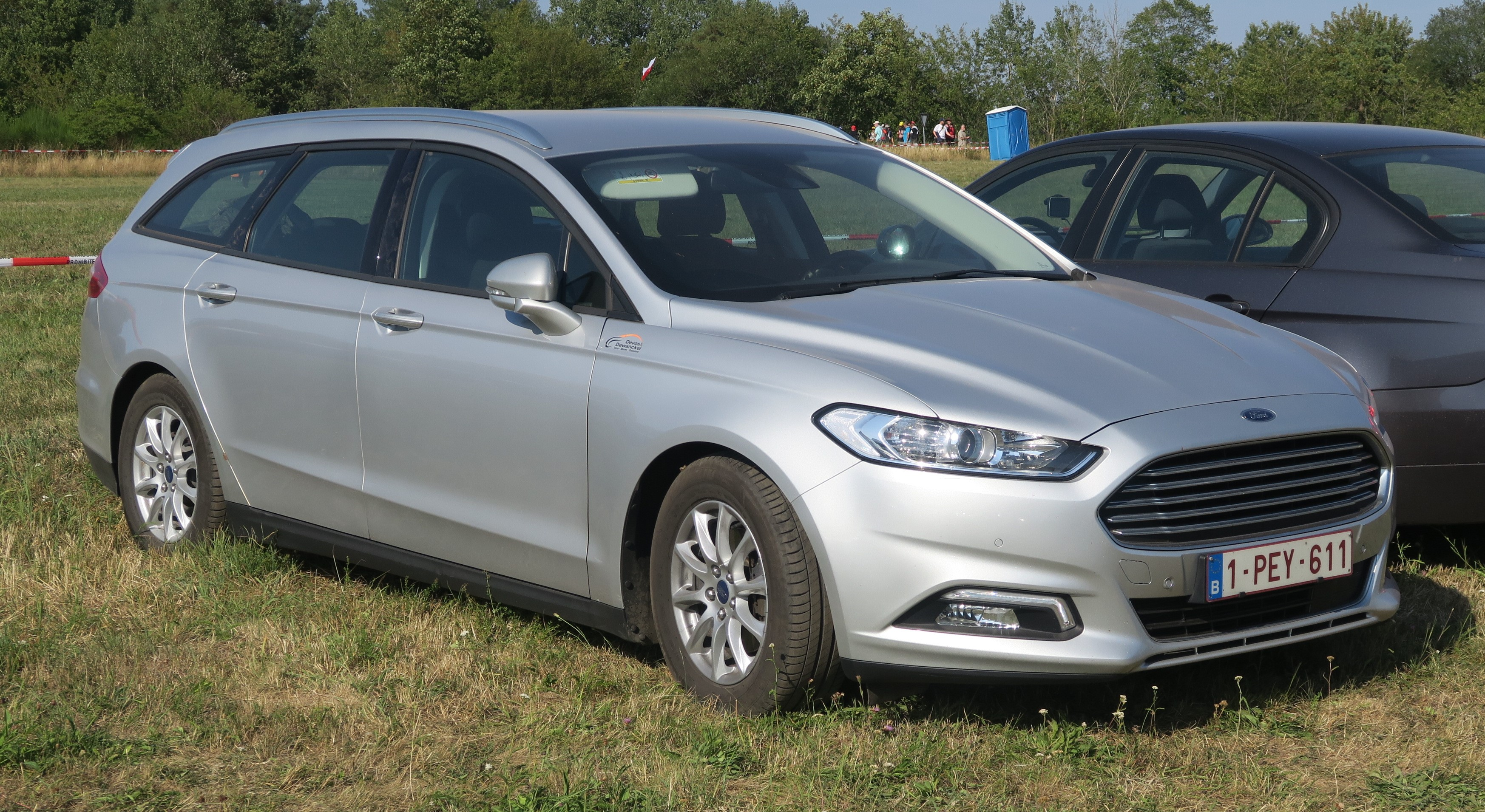 Ford Mondeo Mk V (estate) in Saarland